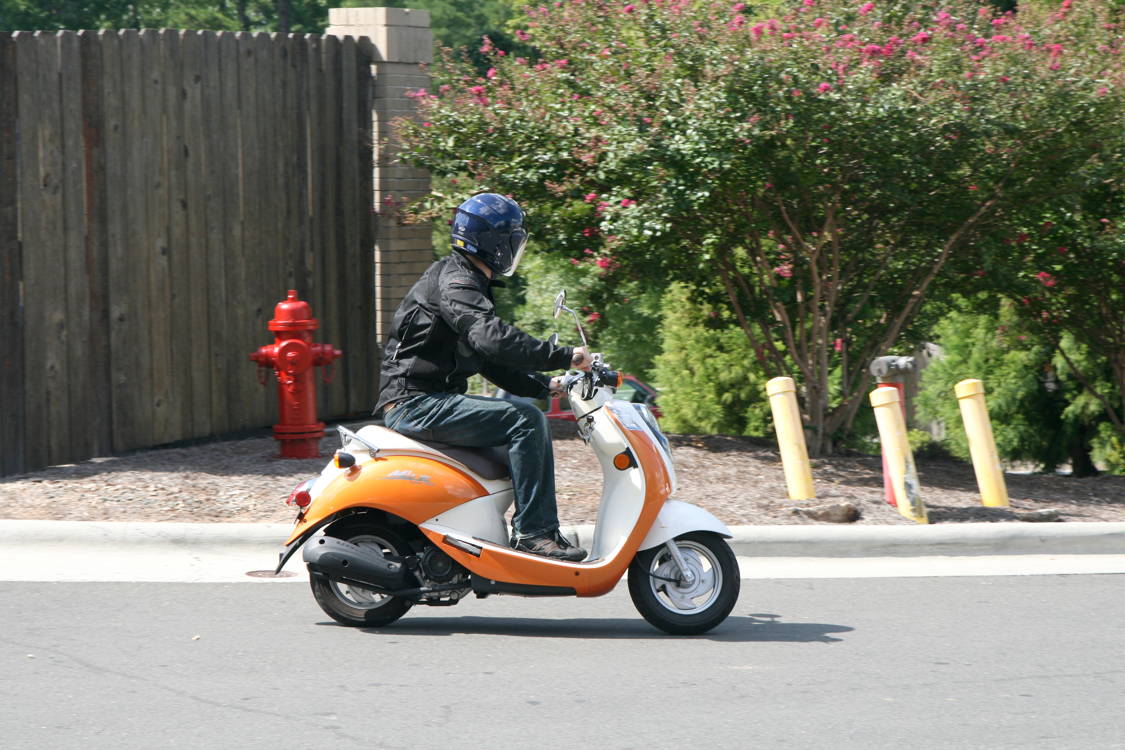 A rider wearing a DOT approved helmet rides a SYM Mia scooter past Nosh in Durham, North Carolina.